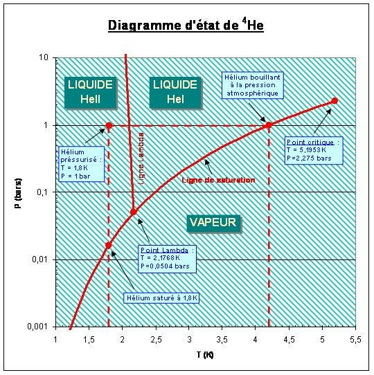 Diagramme d'état de l'hélium 4